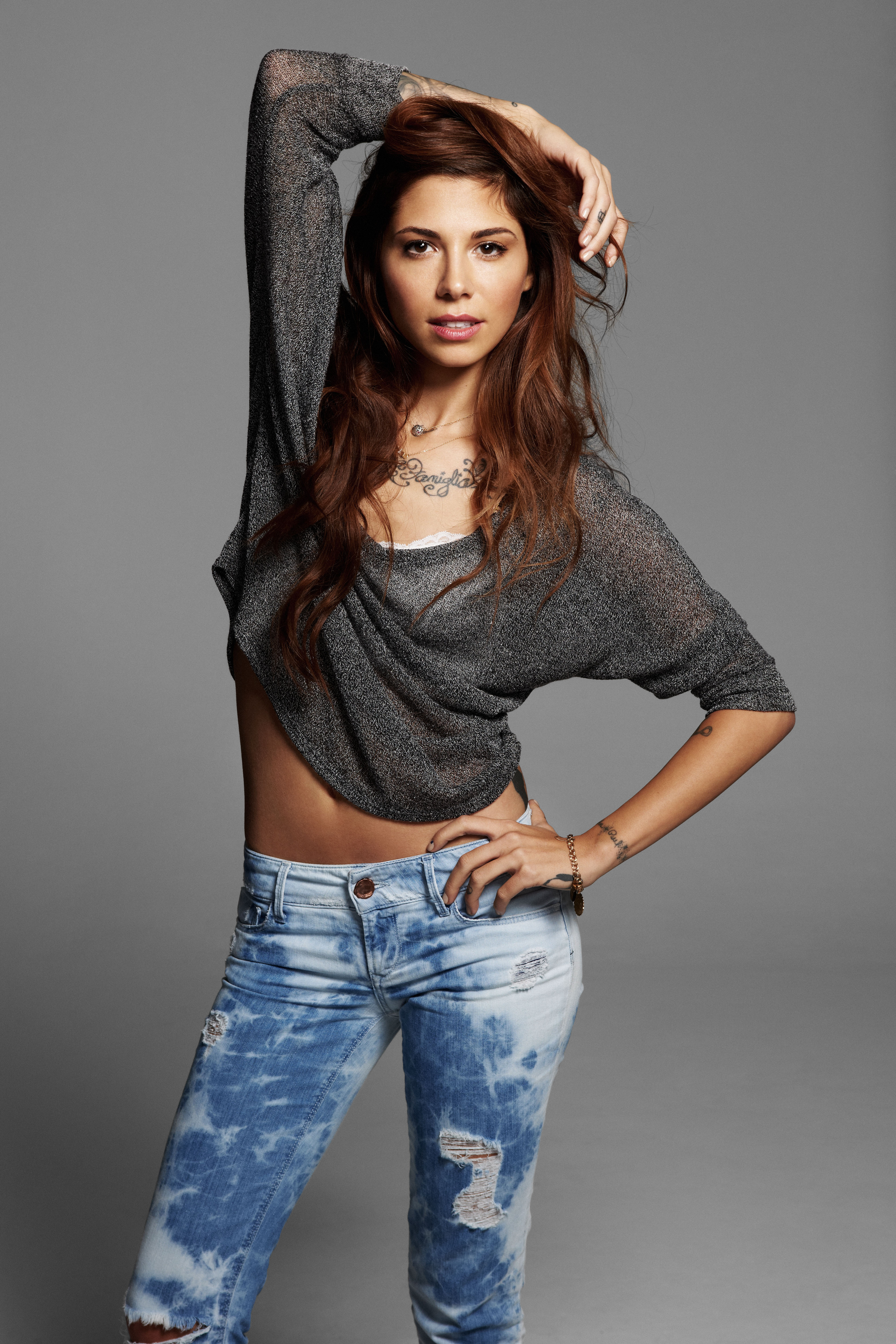 Christina Perri